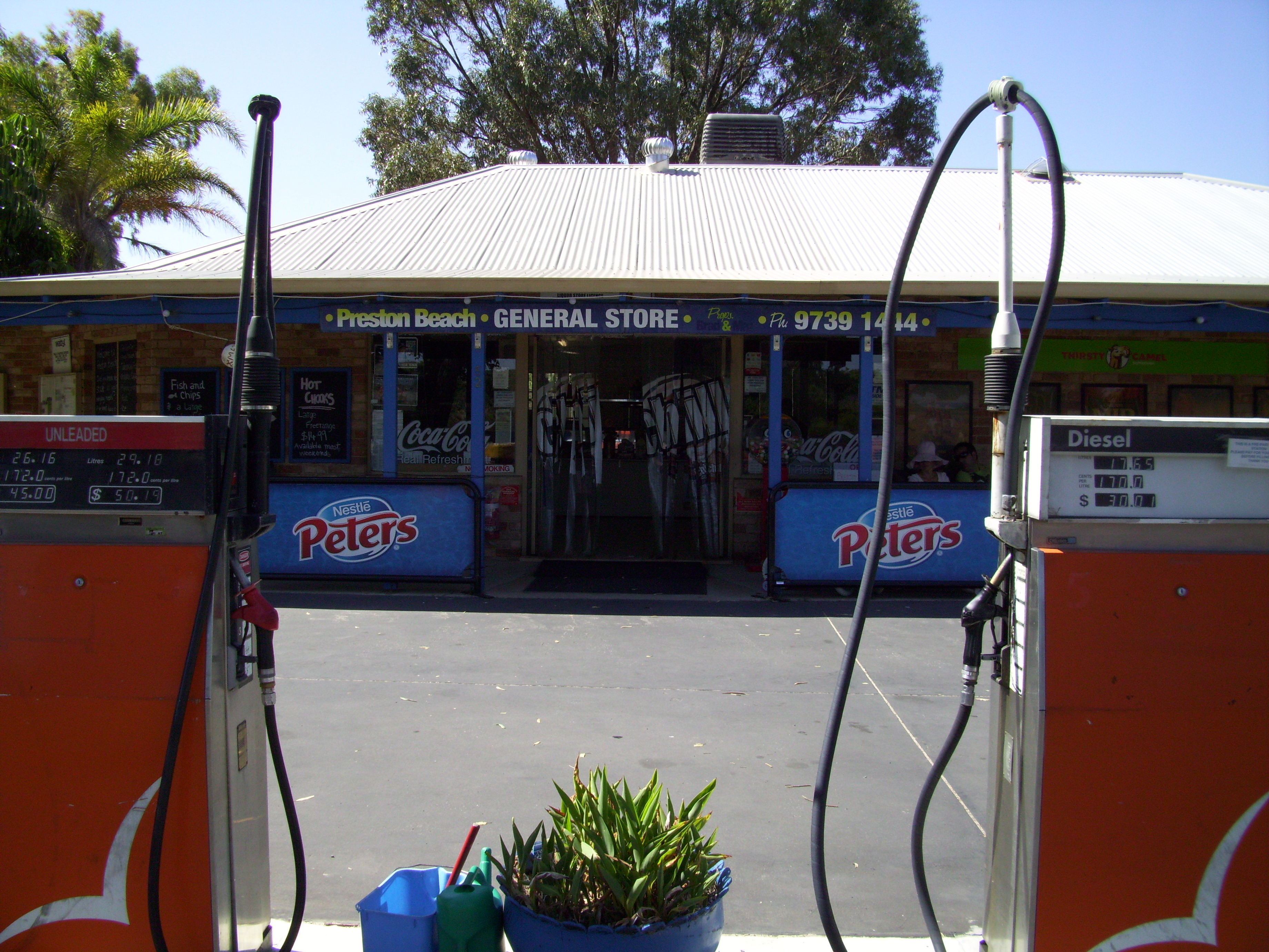 Preston Beach General Store, corner of Mitchell Road and Panorama Drive, Preston Beach, Western Australia